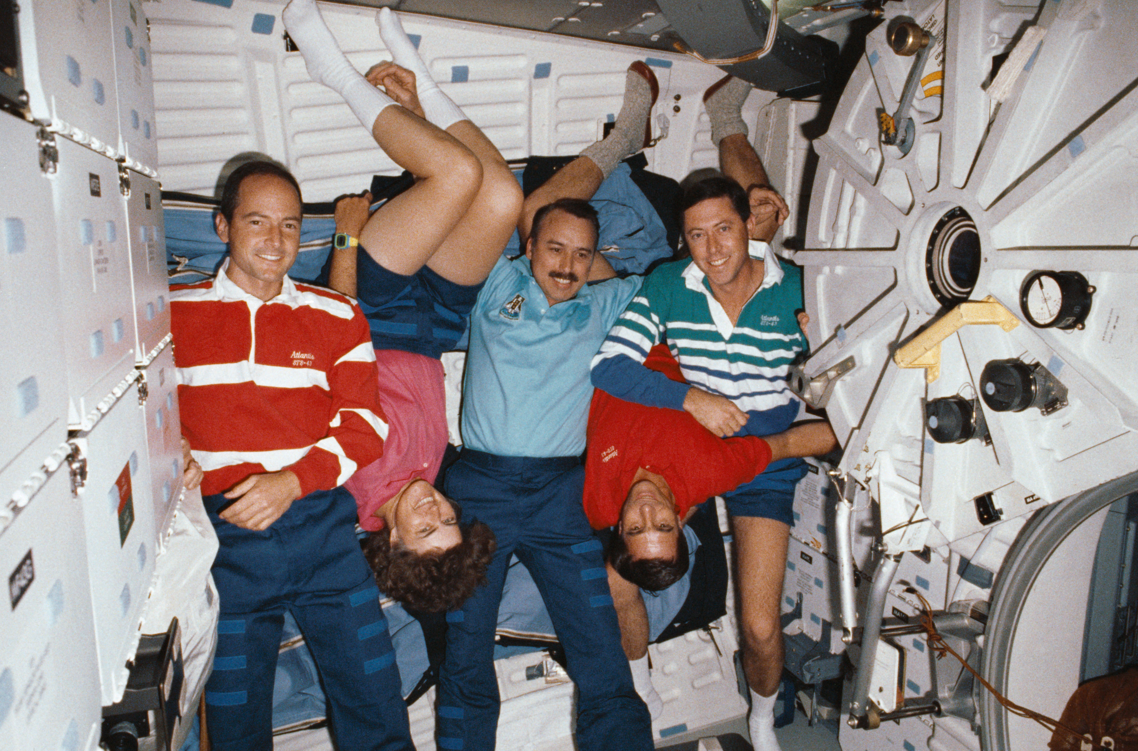 The crew of mission STS-43 poses on the middeck of the orbiter Atlantis.